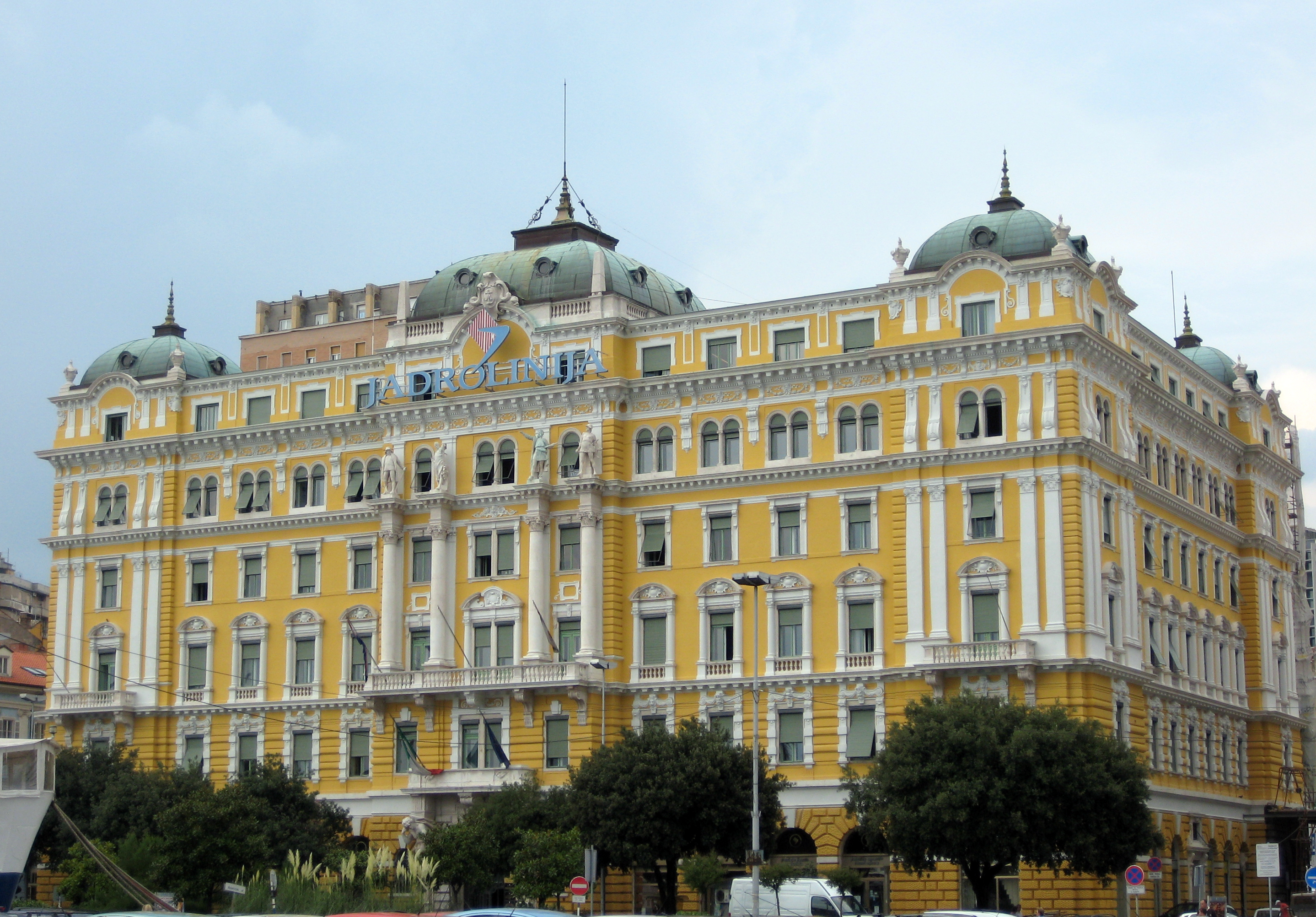 Palača Jadran, Jadrolinija, Rijeka, Croatia